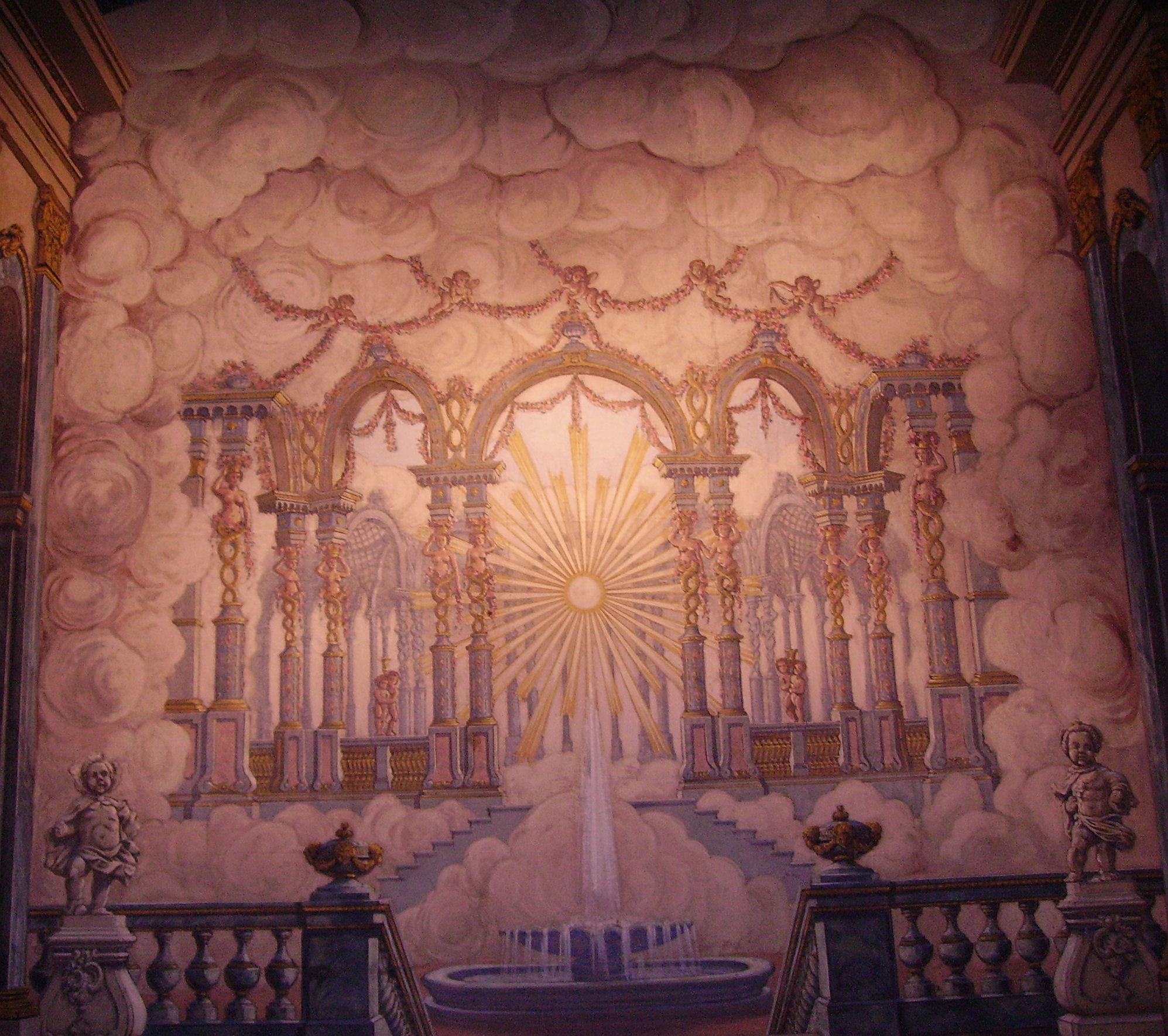 Painted curtain of the Palace Theatre, Schwetzingen, Germany